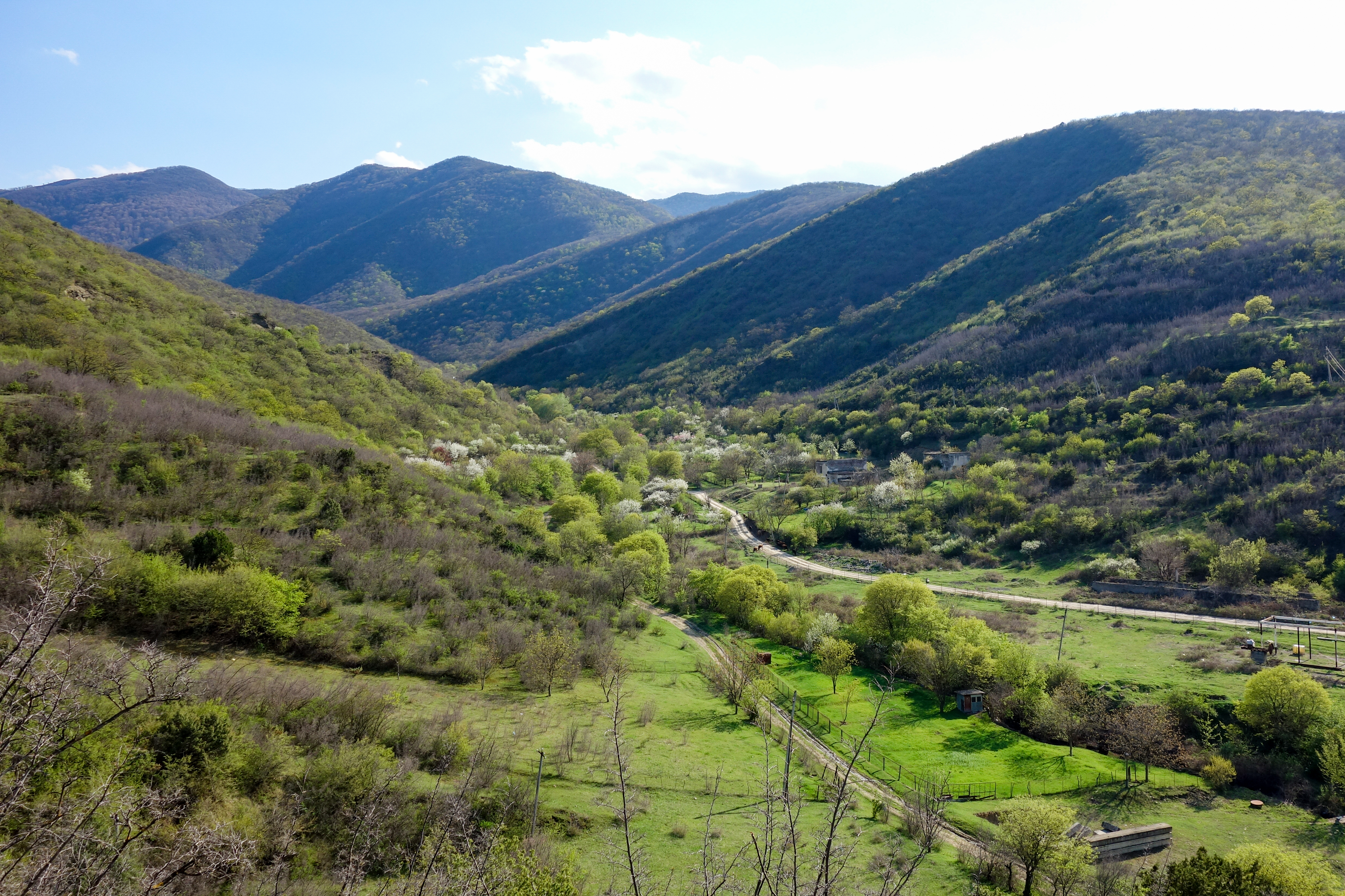 Tsikhedidi Valley (as seen from Bora Church), Dzegvi, Georgia